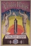 digital photo of a cover of Virex therapy Manual from c. 1920